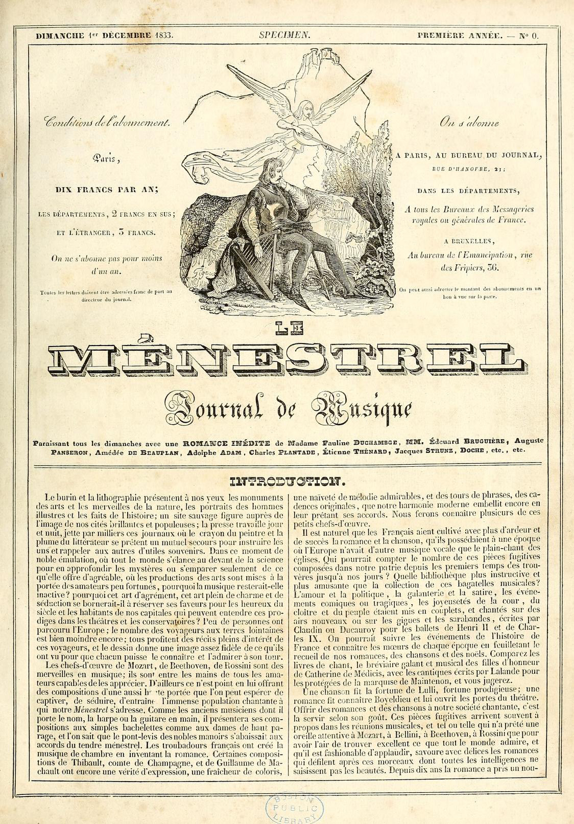 Front page of the first edition of the Parisian periodical Le Ménestrel, Année 1, No. 0 =